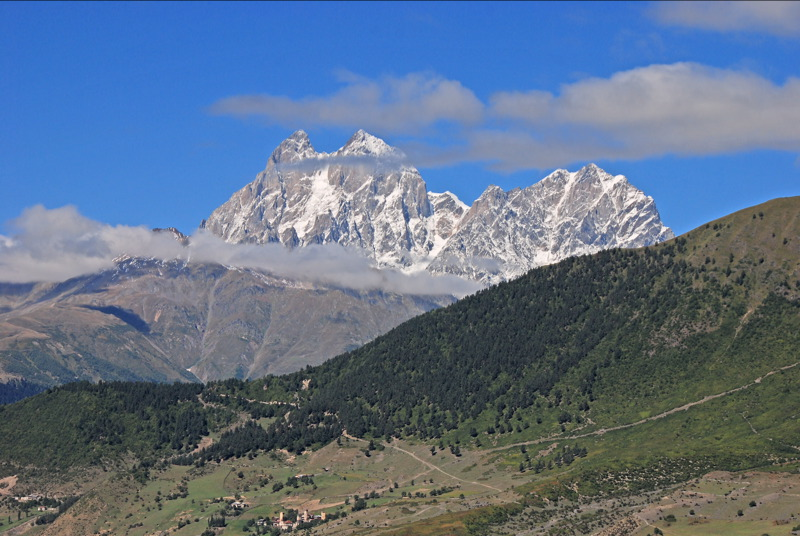 Ushba double peak and Chatyn-Tau (right)